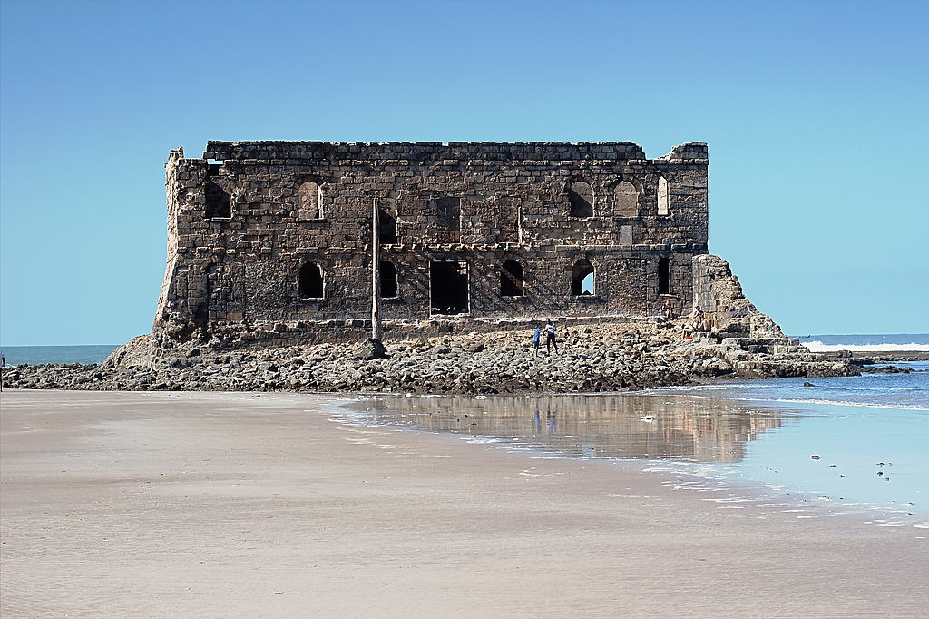 Tarfaya, old British (1882) trading post called "Casa del Mar". Morocco, January 2013